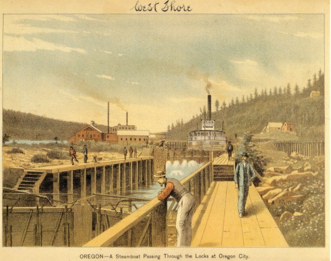 A steamboat passing through the Willamette Locks, as published in Western Shore magazine.